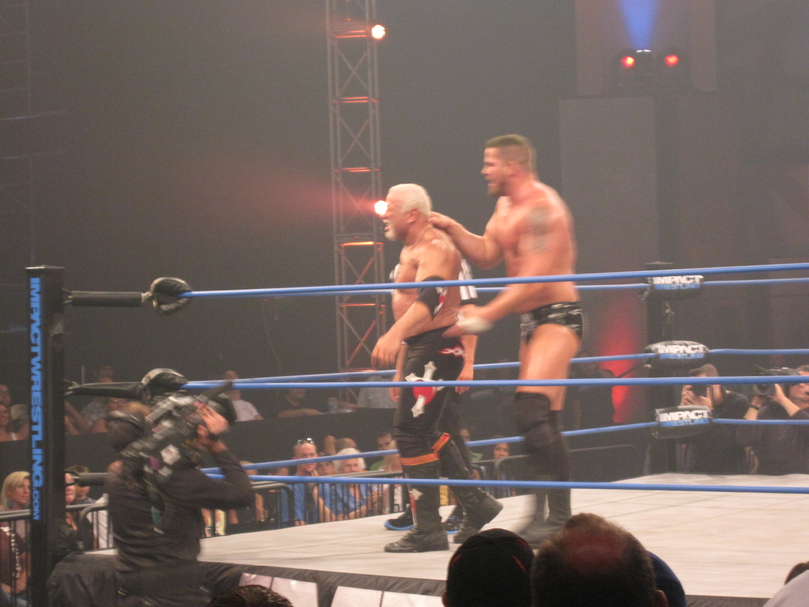 Sunday, June 12, 2011. Universal Orlando